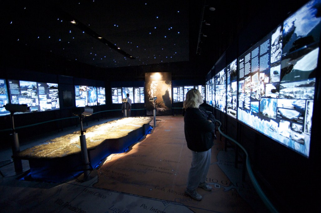 Glaciarium Backlights